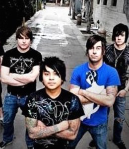 band photo from 2007 or 2008, showing current members (left to right) Justin Powell, Phil Nguyen, Kelvin Cruz, and Casey Hill